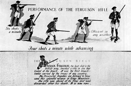 Performance of the Ferfuson Rifle: Six shots a minute Efficient in any weather